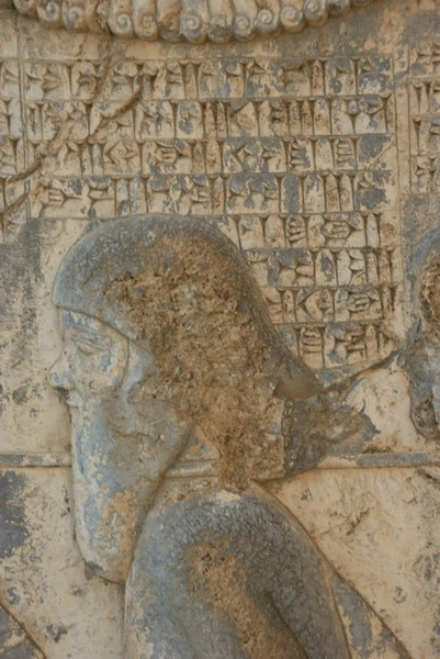 Behistun Relief Phraortes